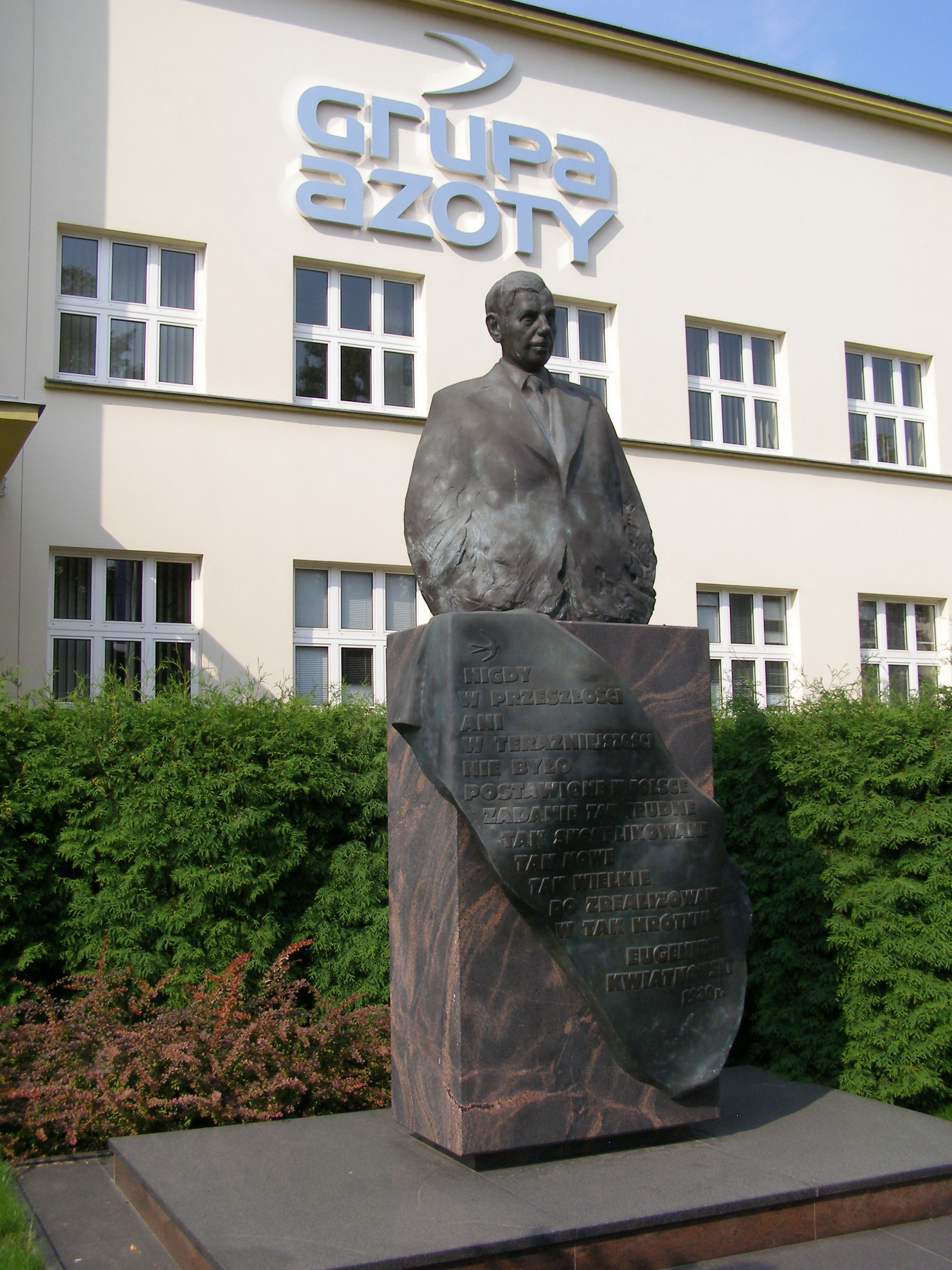 Tarnów - monument of Eugeniusz Kwiatkowski